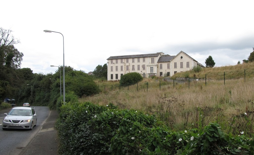 The Derelict Old Downe Hospital viewed from the Killough Road